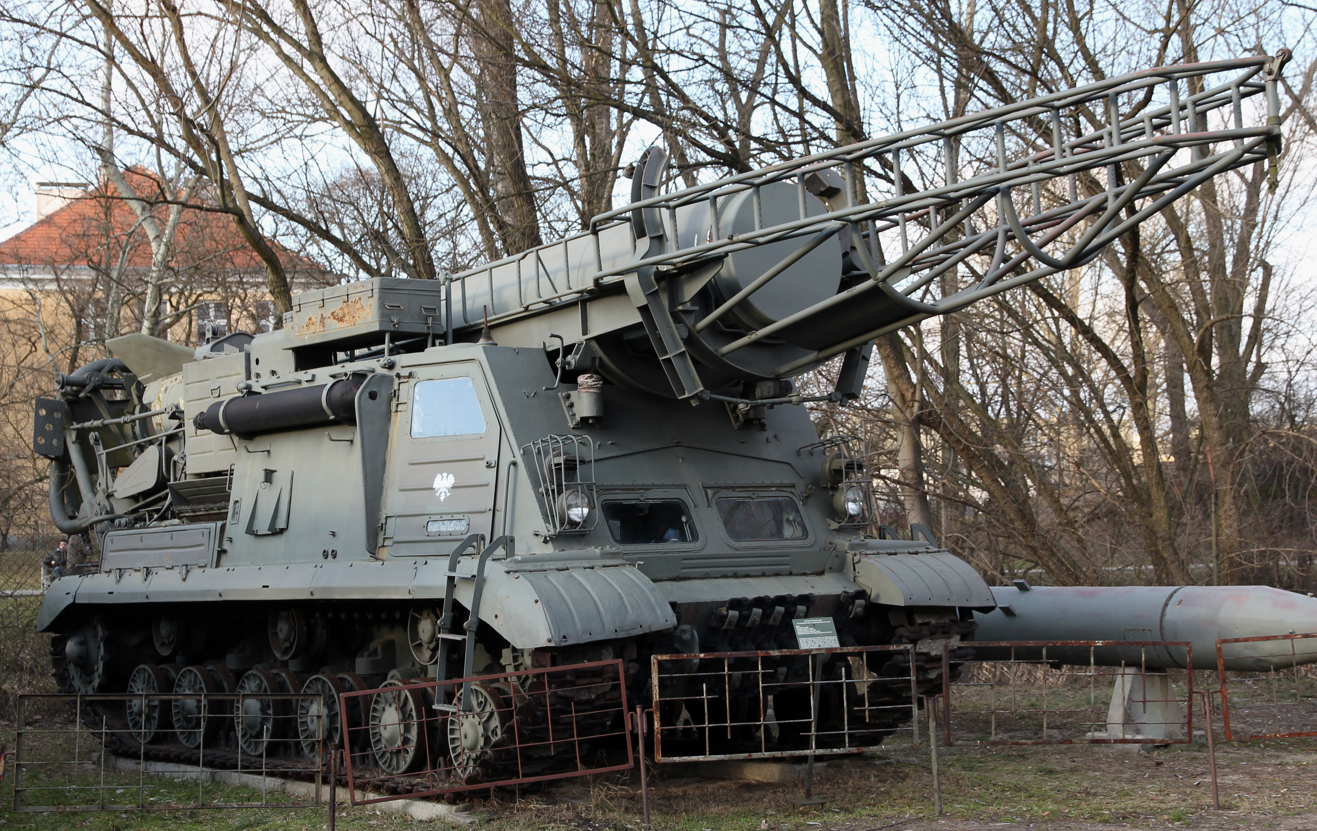 Launcher vechicle 8U218, missile R-11, Scud-A